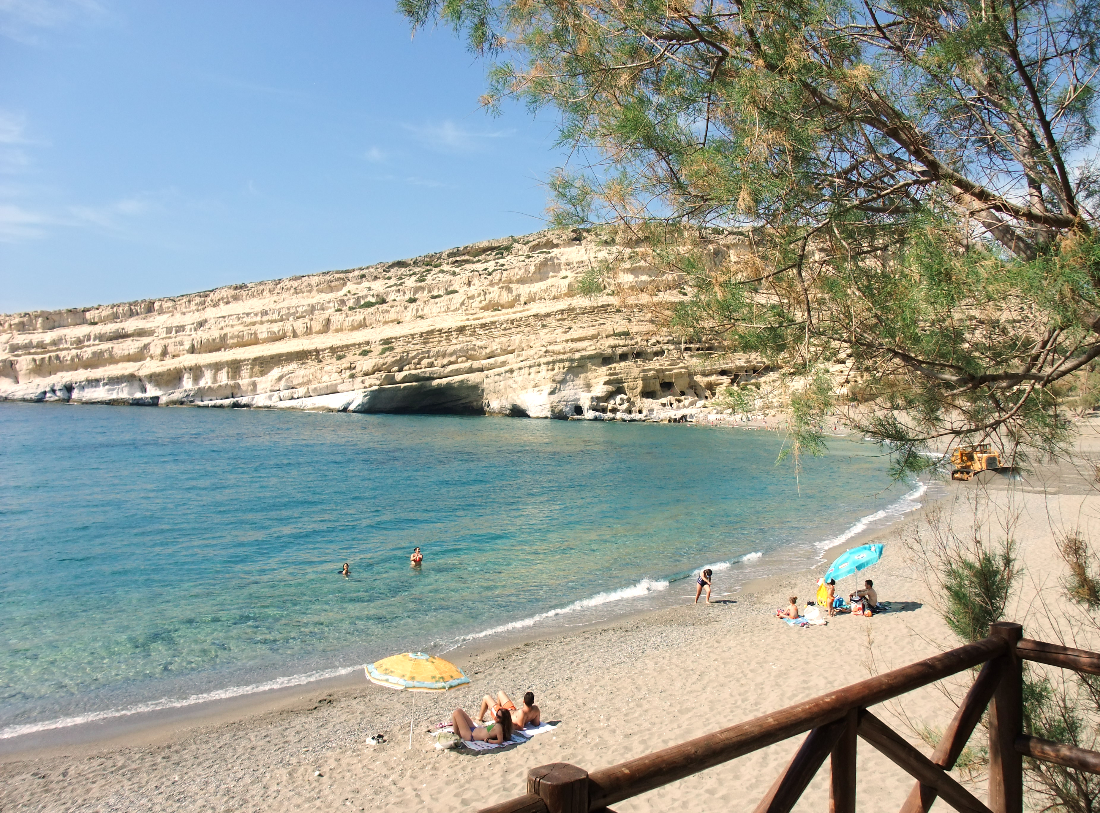 Matala Bay, Crete, Greece